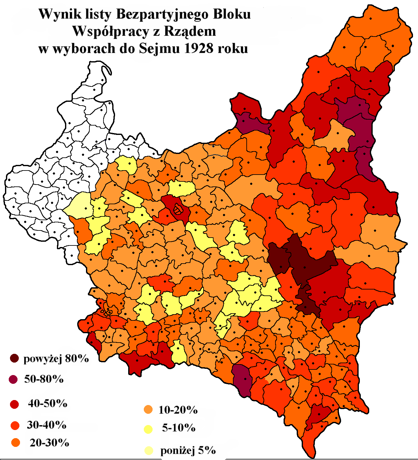 Nonpartisan Bloc for Cooperation with the Government results in the Polish legislative election, 1928